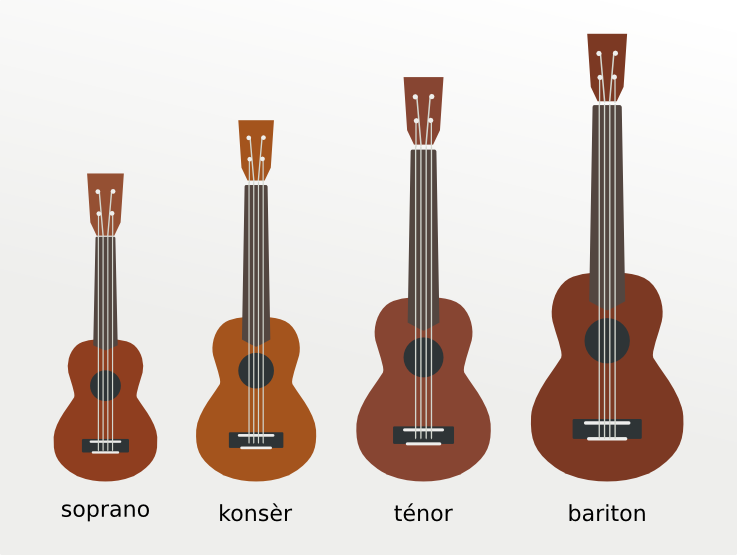 it is a visual comparation for ukulele